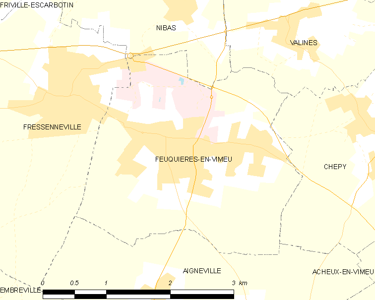 Map of French municipality Feuquières-en-Vimeu